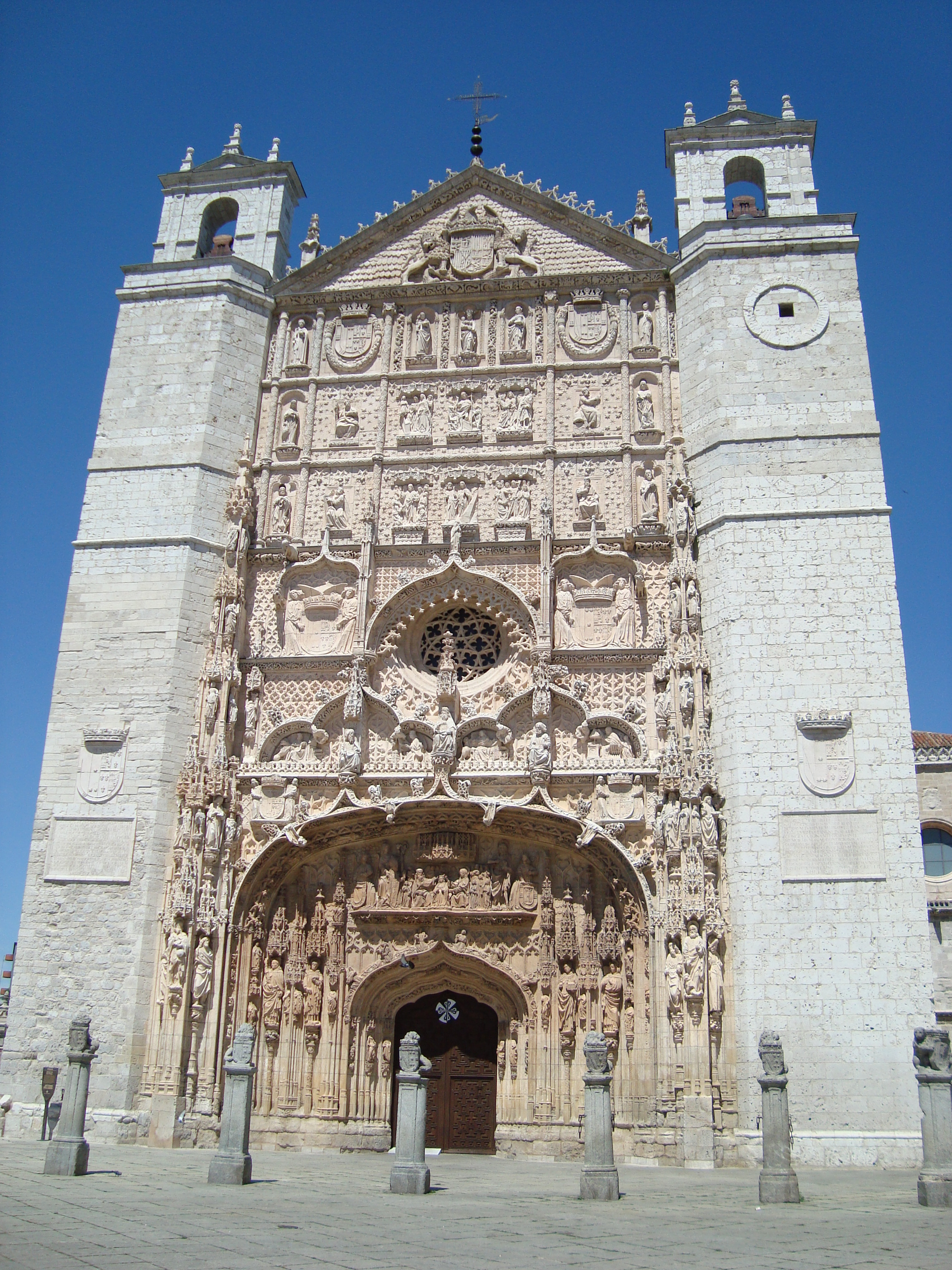 Iglesia conventual de San Pablo, Valladolid